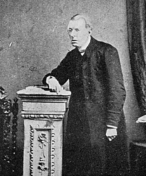 Edward Hincks, Irish philologist